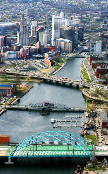 Providence Skyline